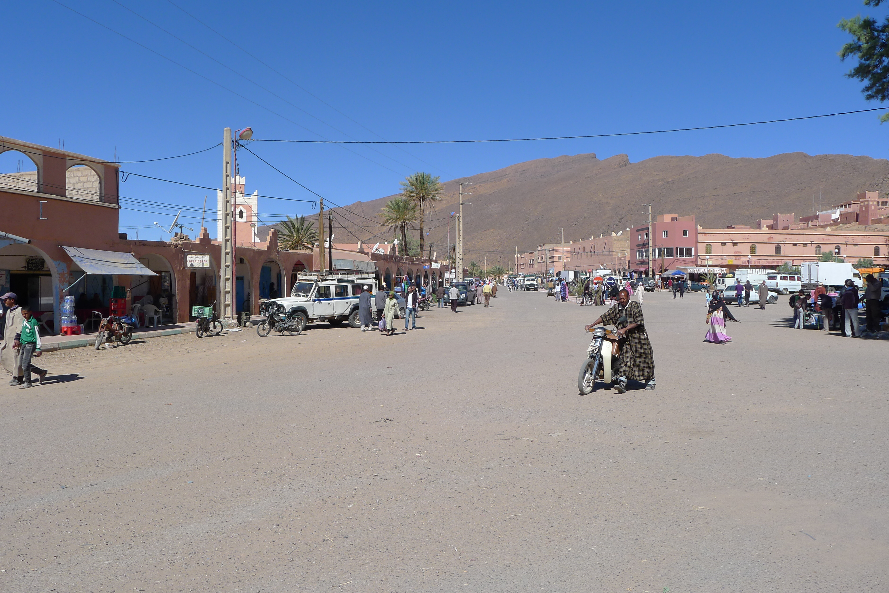 Foum Zguid - town centre